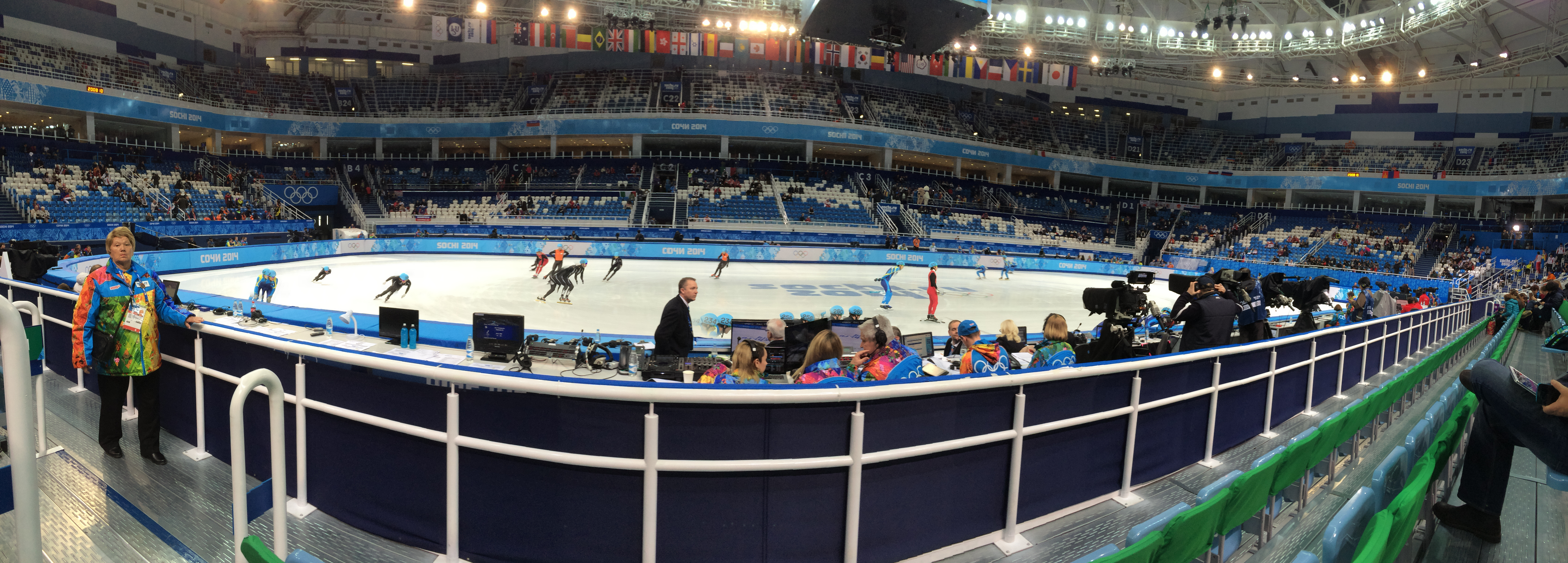 The Iceberg Skating Palace during short track competitions at the winter Olympic Games in Sochi 2014